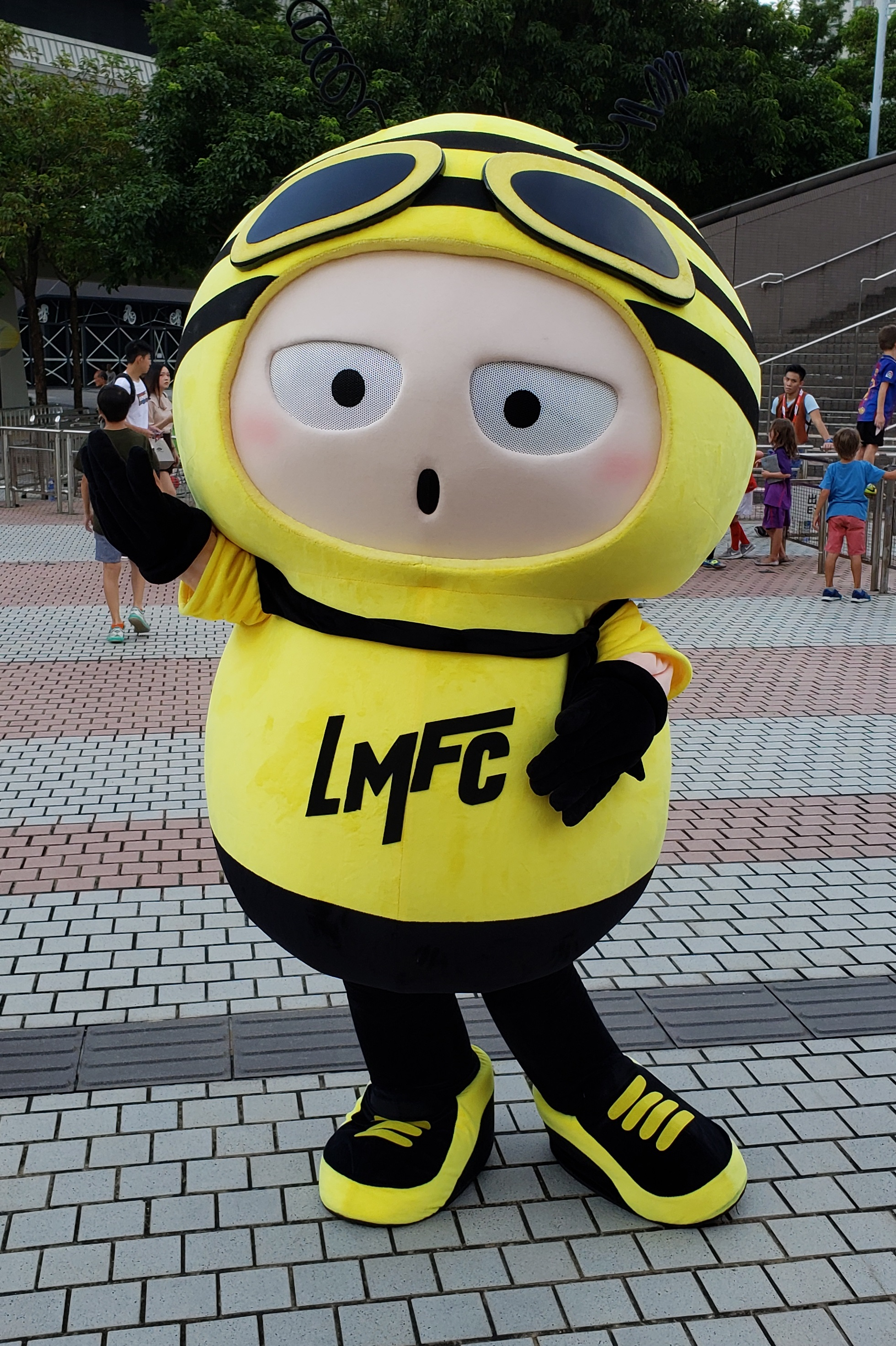 The mascot of Lee Man FC, Bee. 中文（香港）: 理文足球會吉祥物